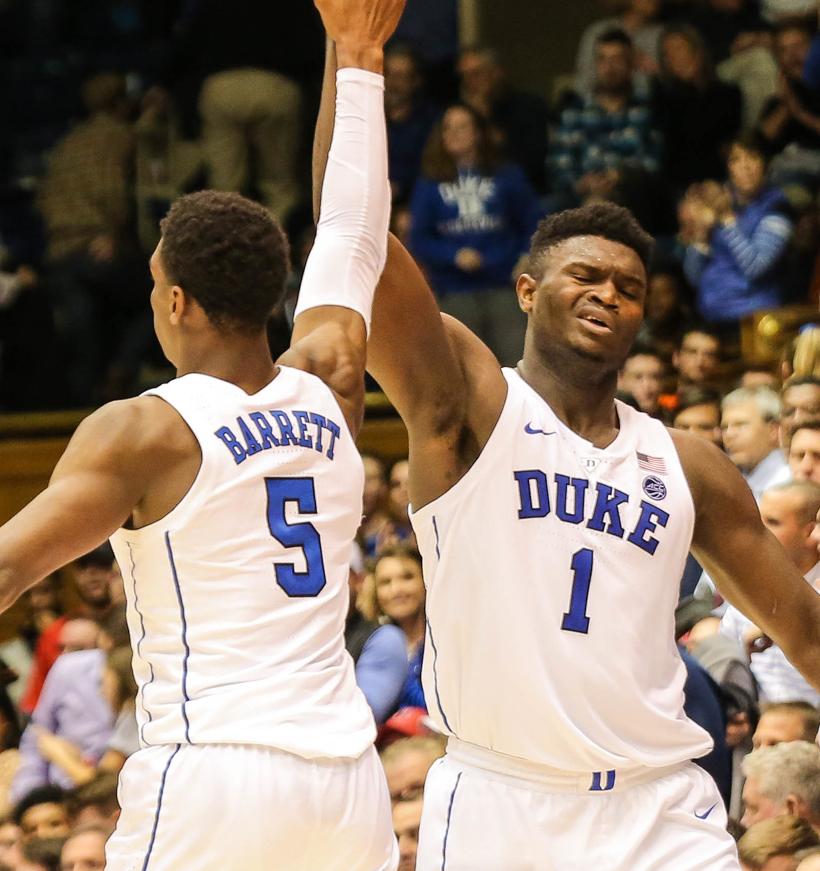 RJ Barrett & Zion Williamson :: Duke Men's Basketball NCAA :: Keenan Hairston